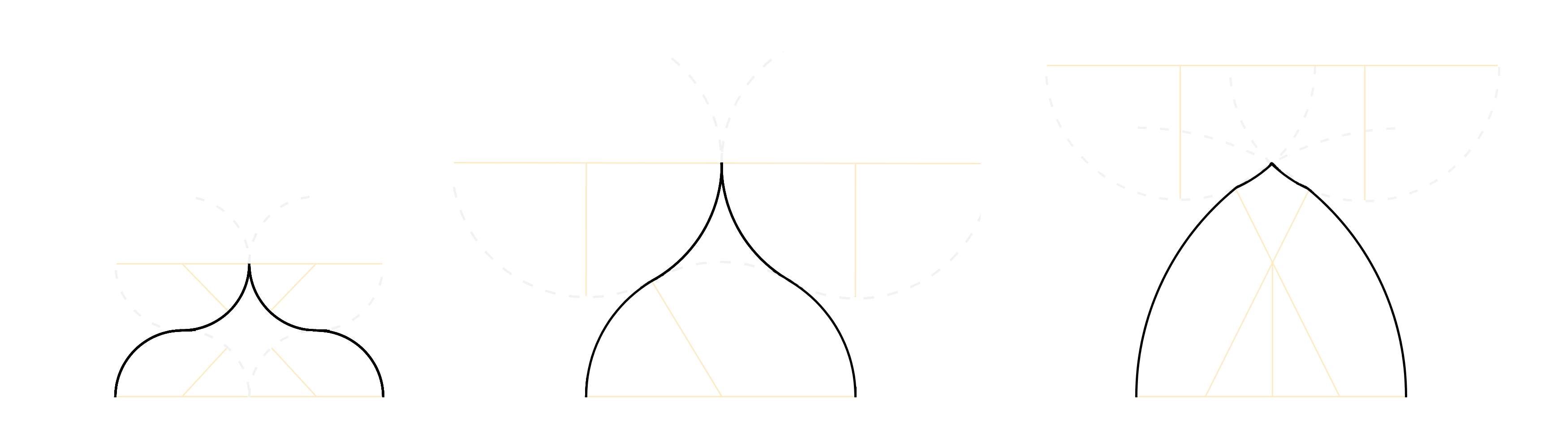 Ogee arches - left and center, pointed arch on right.